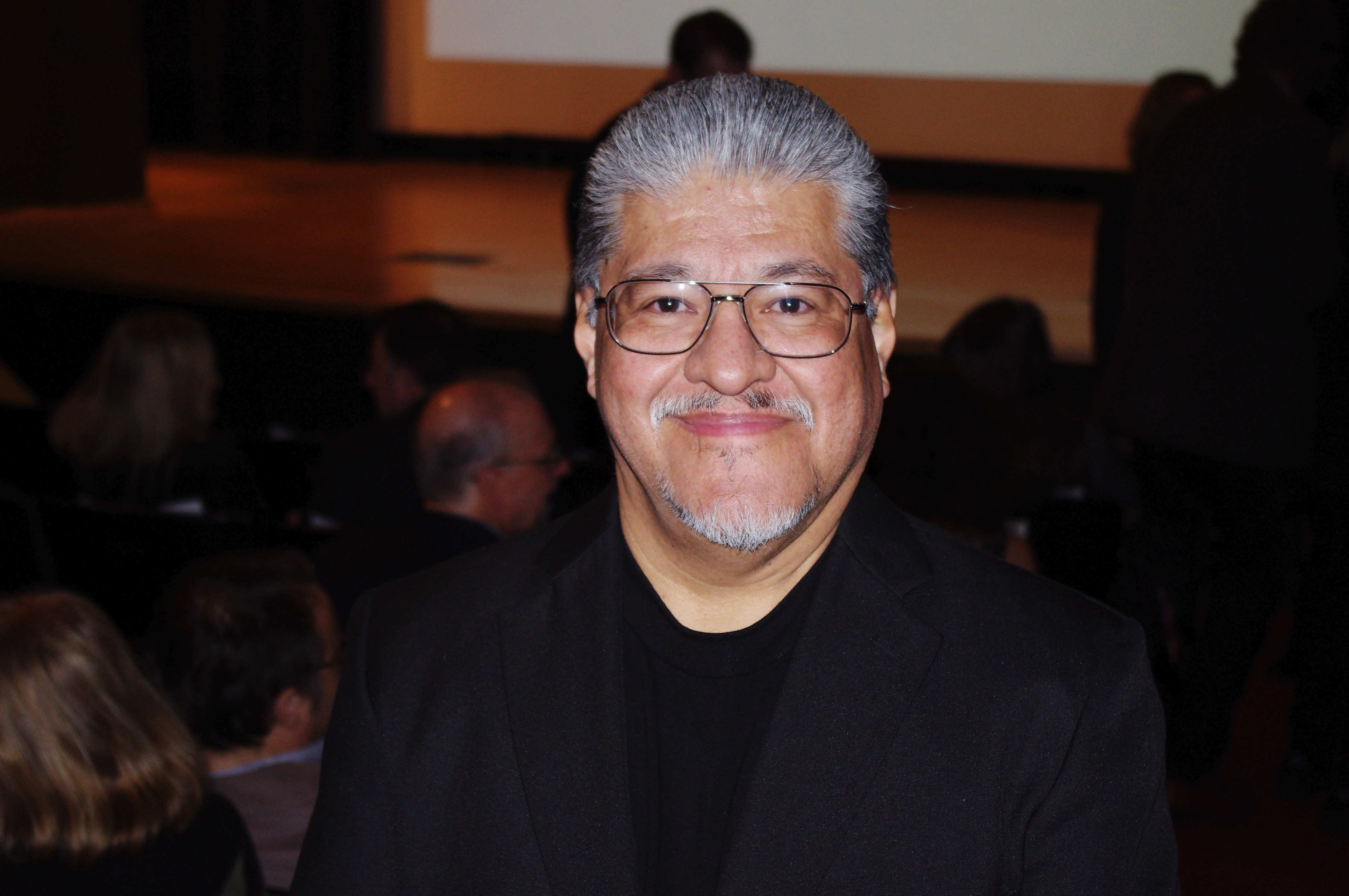 Photos from the National Book Critics Circle Awards for the publishing year 2011. March 7-8, 2012 David Shankbone